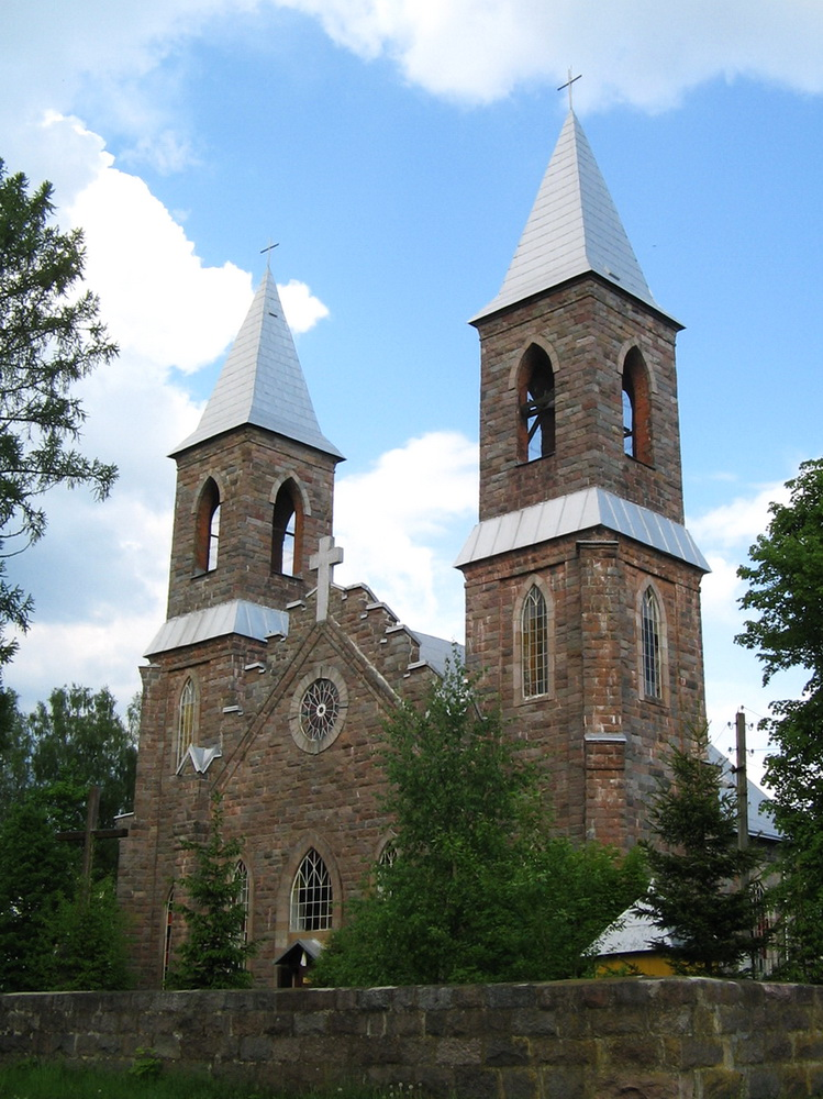 Catholic church of St. Joseph (Rubiazevicy, Belarus).